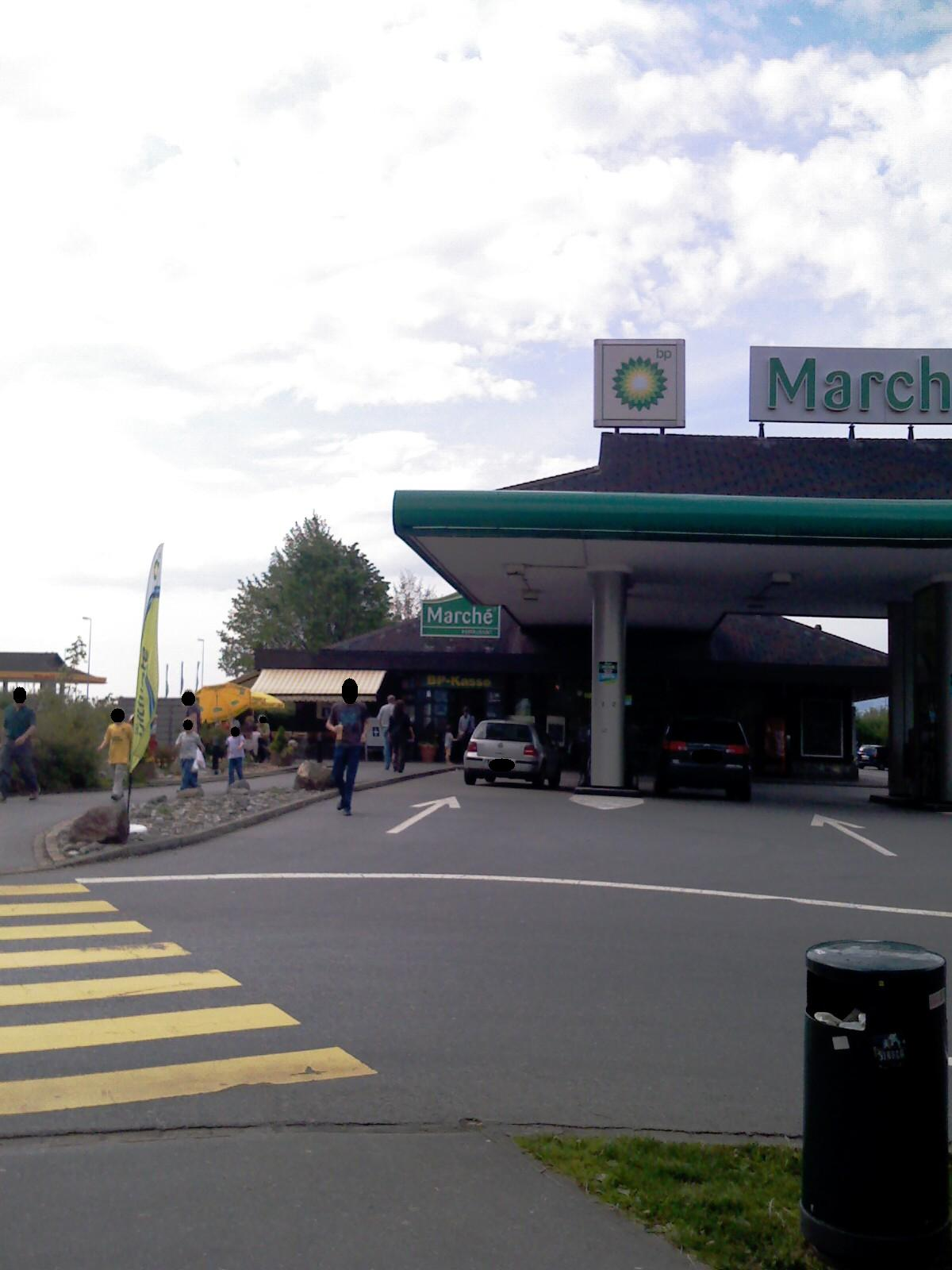 Highway rest area Glarnerland at Niederurnen, canton of Glarus, SwitzerlandEsperanto: Aŭtovojo restadejo Glarnerland Mühlehorn, Kantono Glaruso, Svislando